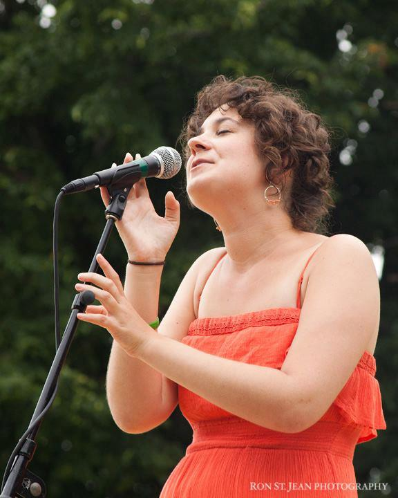 Kyle Carey at Prescott Park